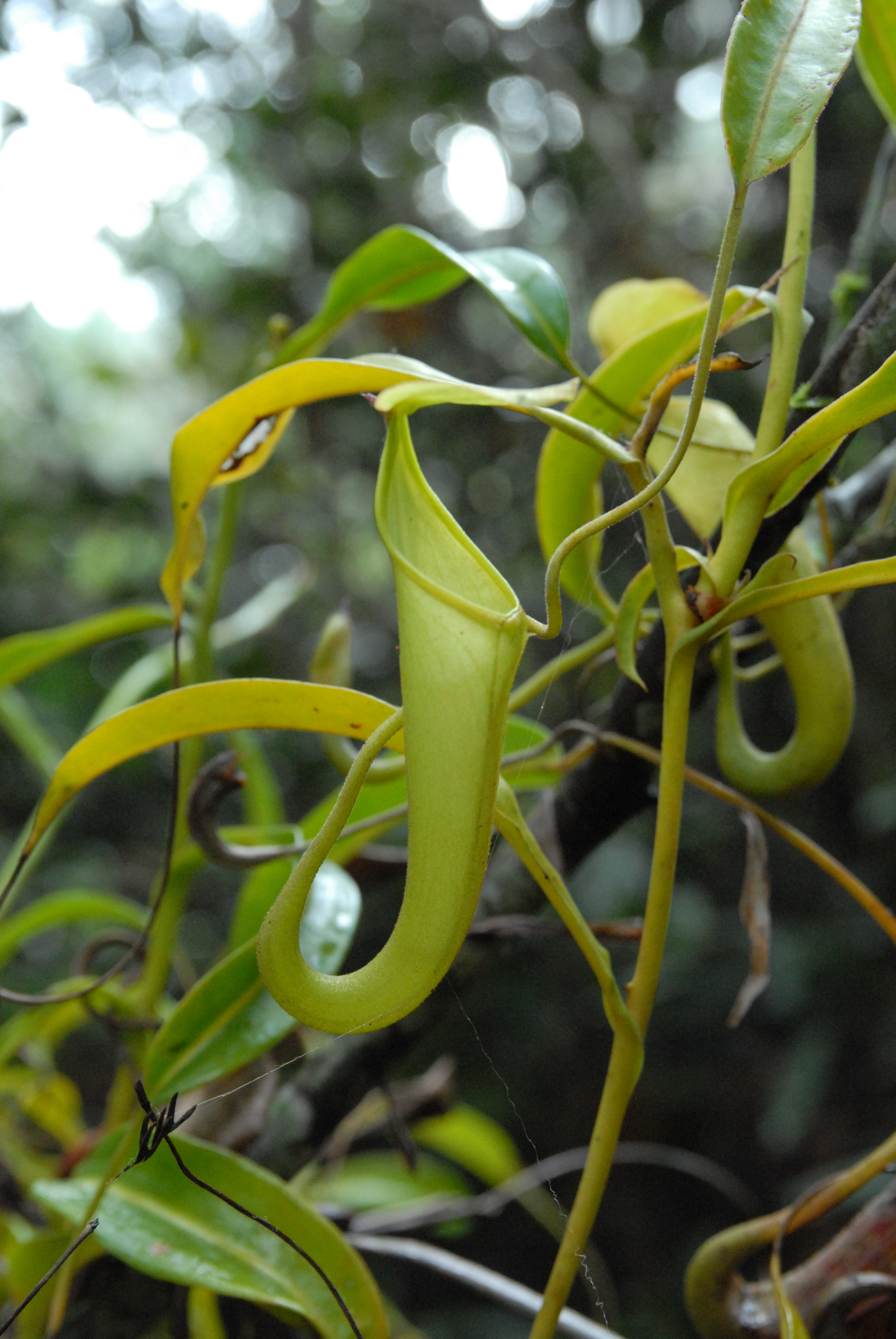 Nepenthes oblanceolata upper pitcher from near Wamena, Baliem Valley, New Guinea (this species is sometimes regarded as a synonym of N. maxima)